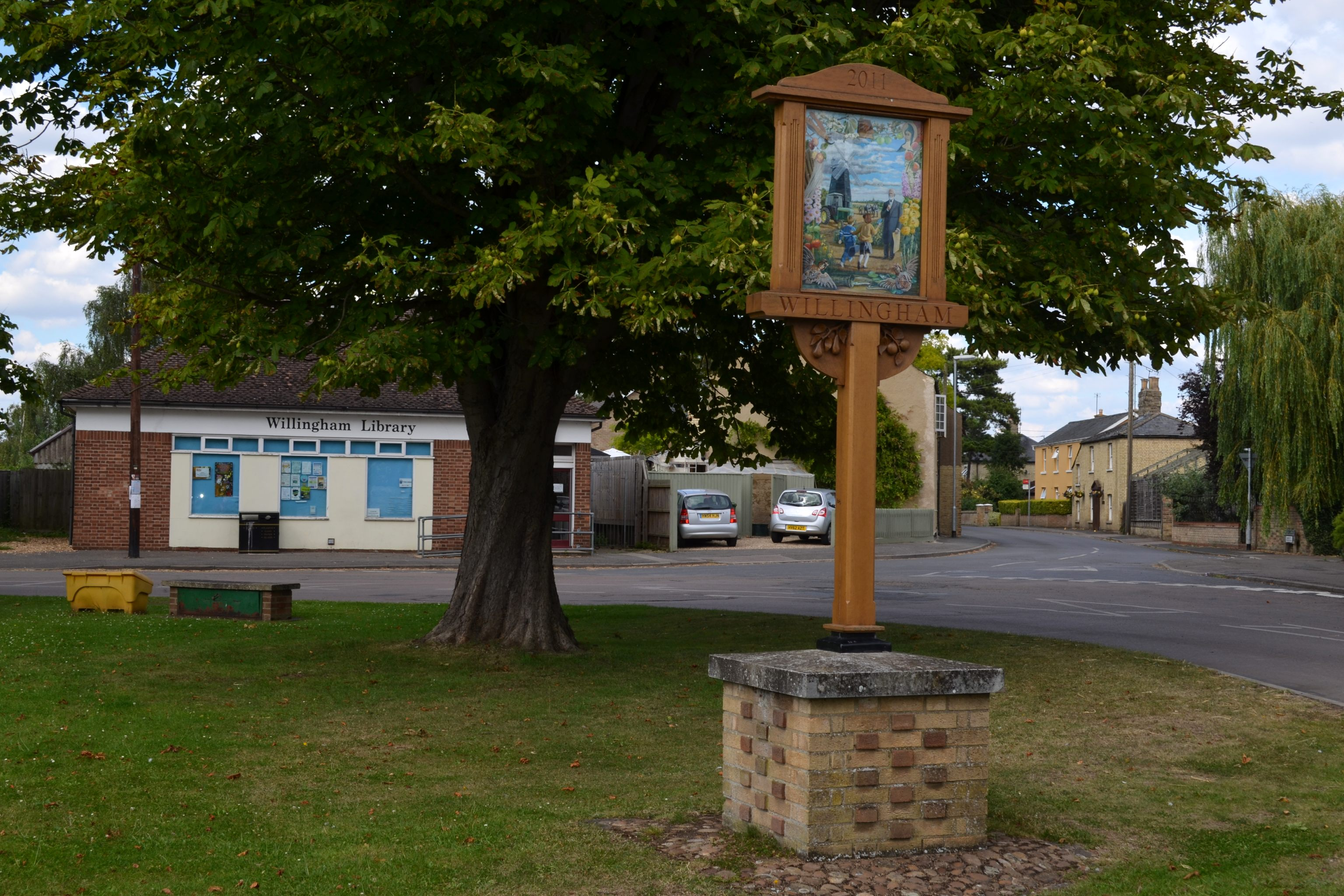 Village sign, green and library of Willingham, Cambridgeshire, England in July 2014.